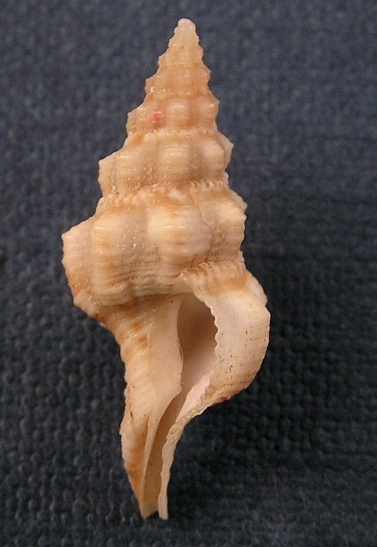 Fusolatirus suduiraudi Fraussen, 2003, a spindle snail from the family Fasciolariidae; Philippines